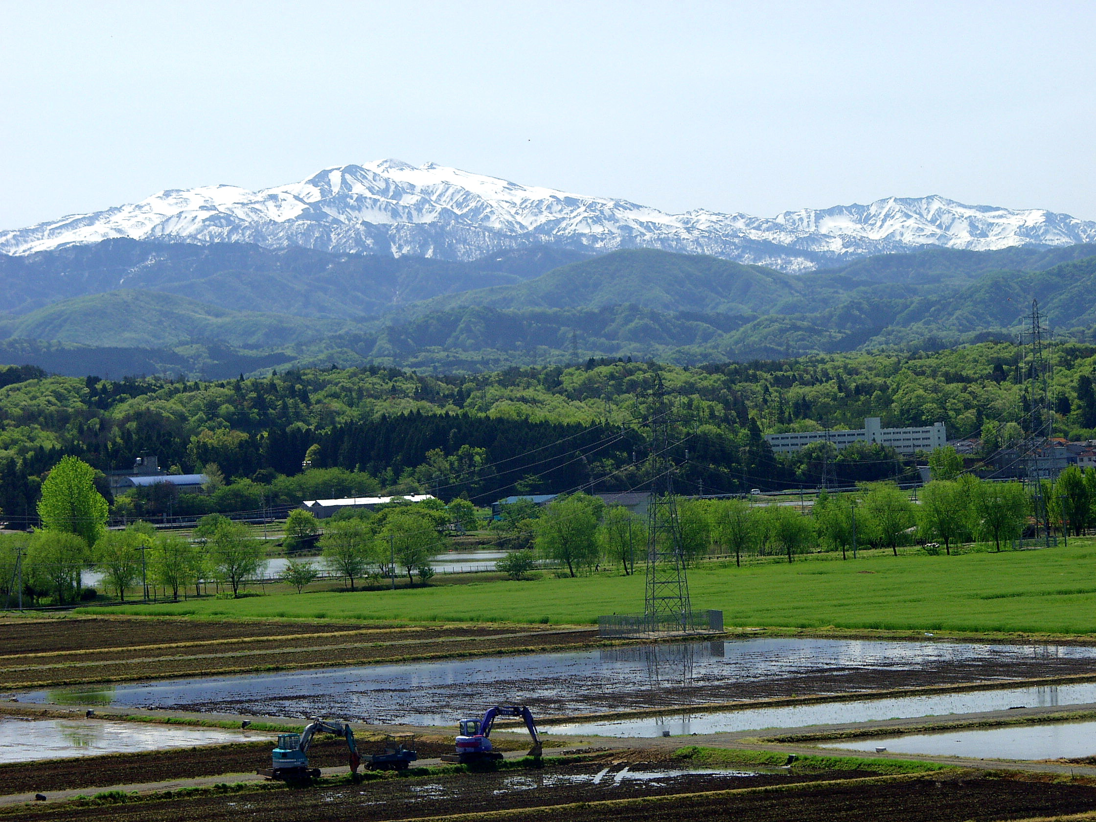 A view of Mt Hakusan from Komatsu city.